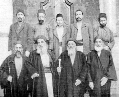 Rabbi Jacob Saul Dwek and officials of the great synagogue of Aleppo. This photo is taken from a book. It shows the influencial Rabbi and officials of aleppo's great synagogue. Aleppo was one of the main centers of Judaism.